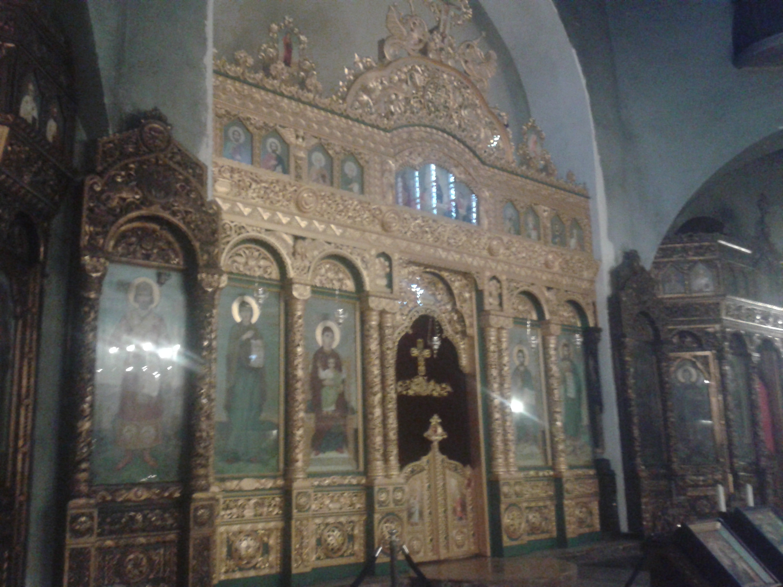 Saint Paraskevi Church in Sofia Altar